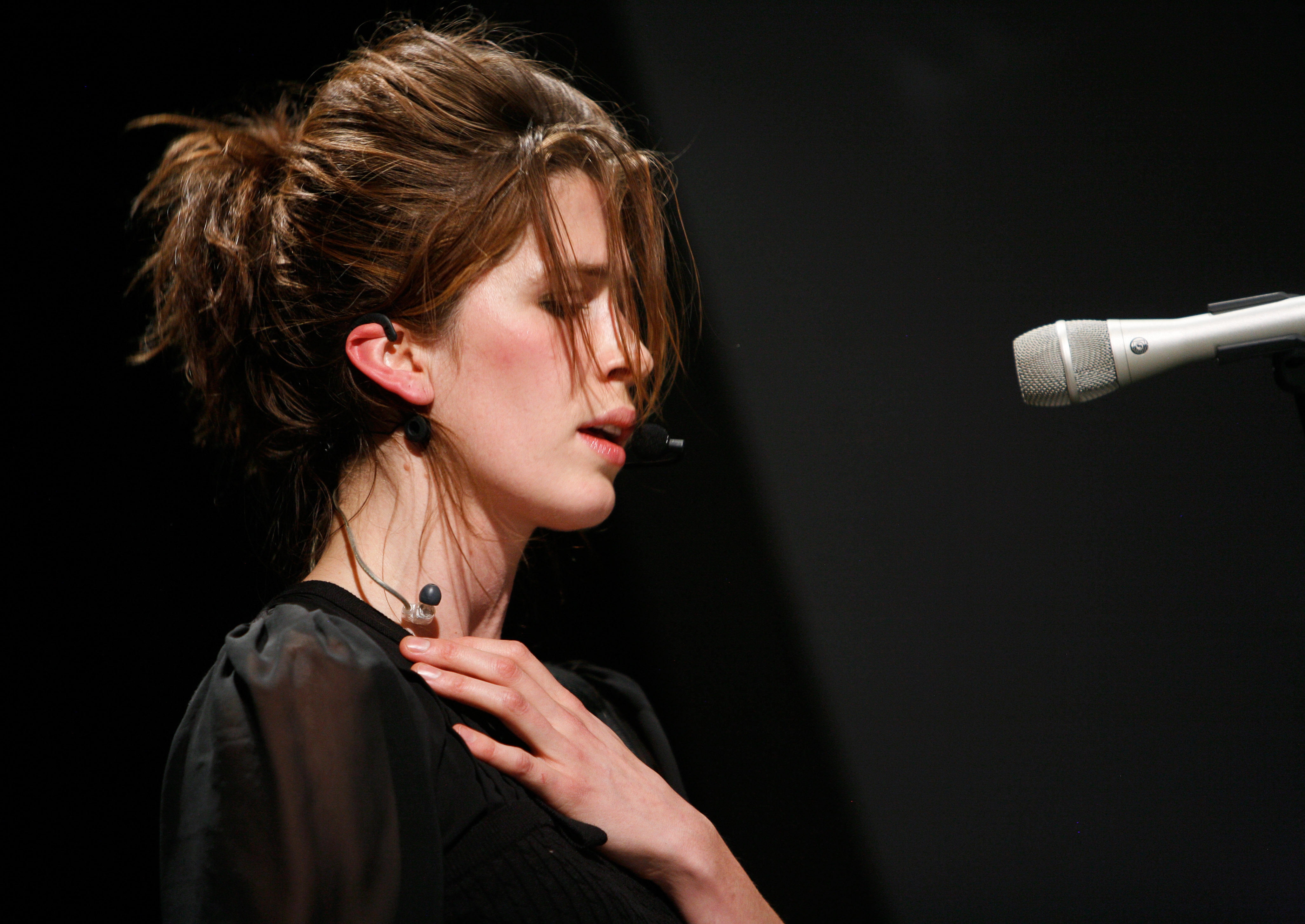 Imogen Heap at Pop Tech 2008